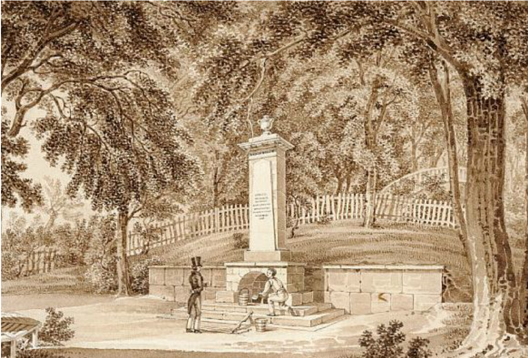 Emiliekilde in Klampenborg north of Copenhagen, Denmark